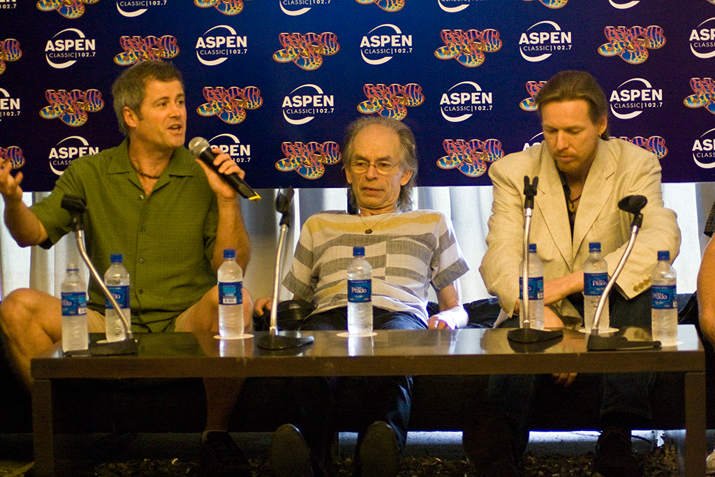 Press conference of Yes rock band: Benoît David, Steve Howe and Oliver Wakeman